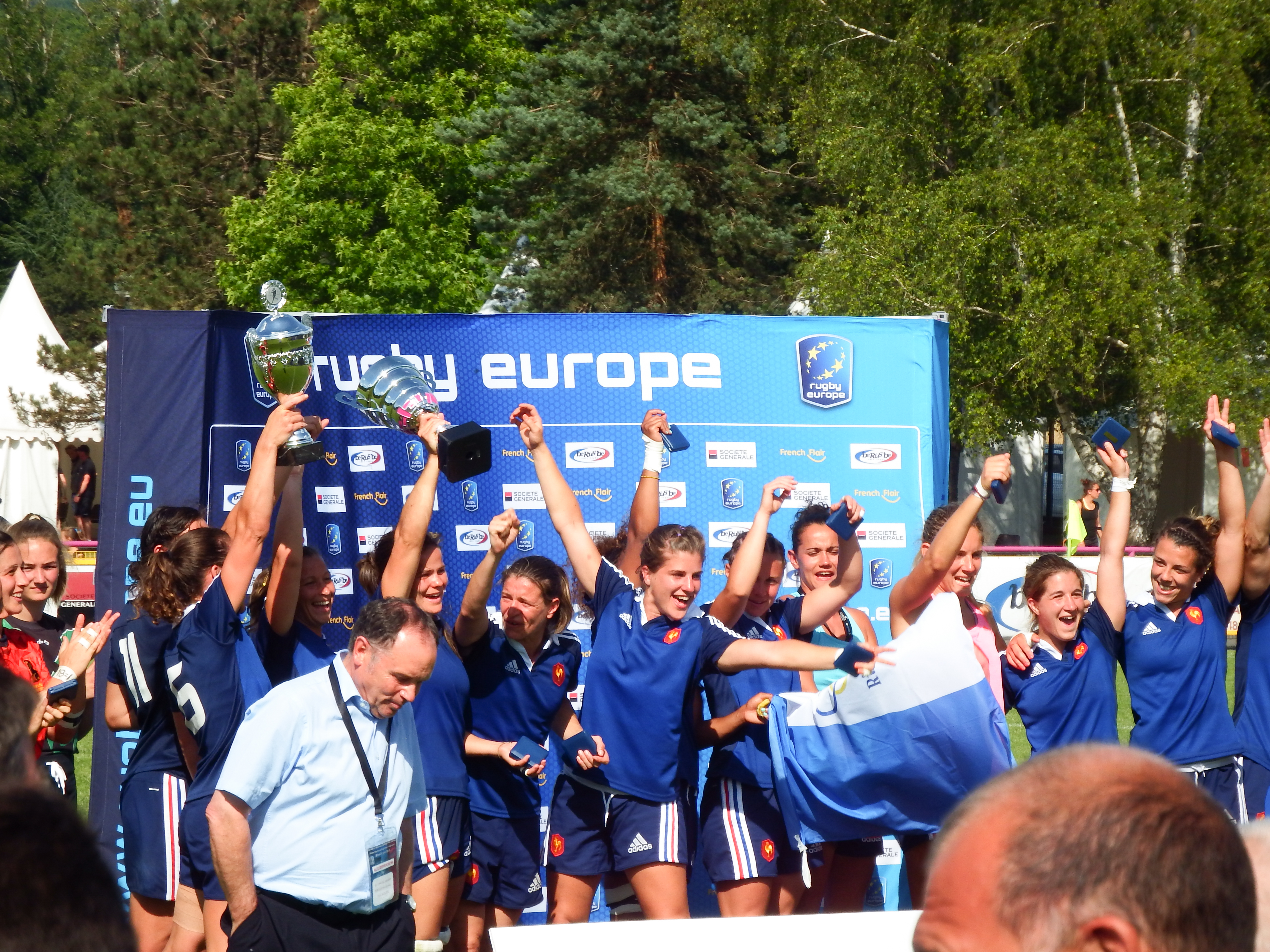 Malemort Sevens 2015 — 21 June 2015, stade Raymond-Faucher. Match between: France — Spain